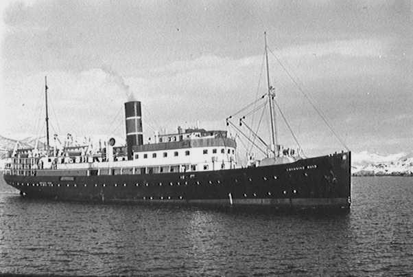 Norwegian coastal express ship (Hurtigruten) DS Dronning Maud built in 1925.